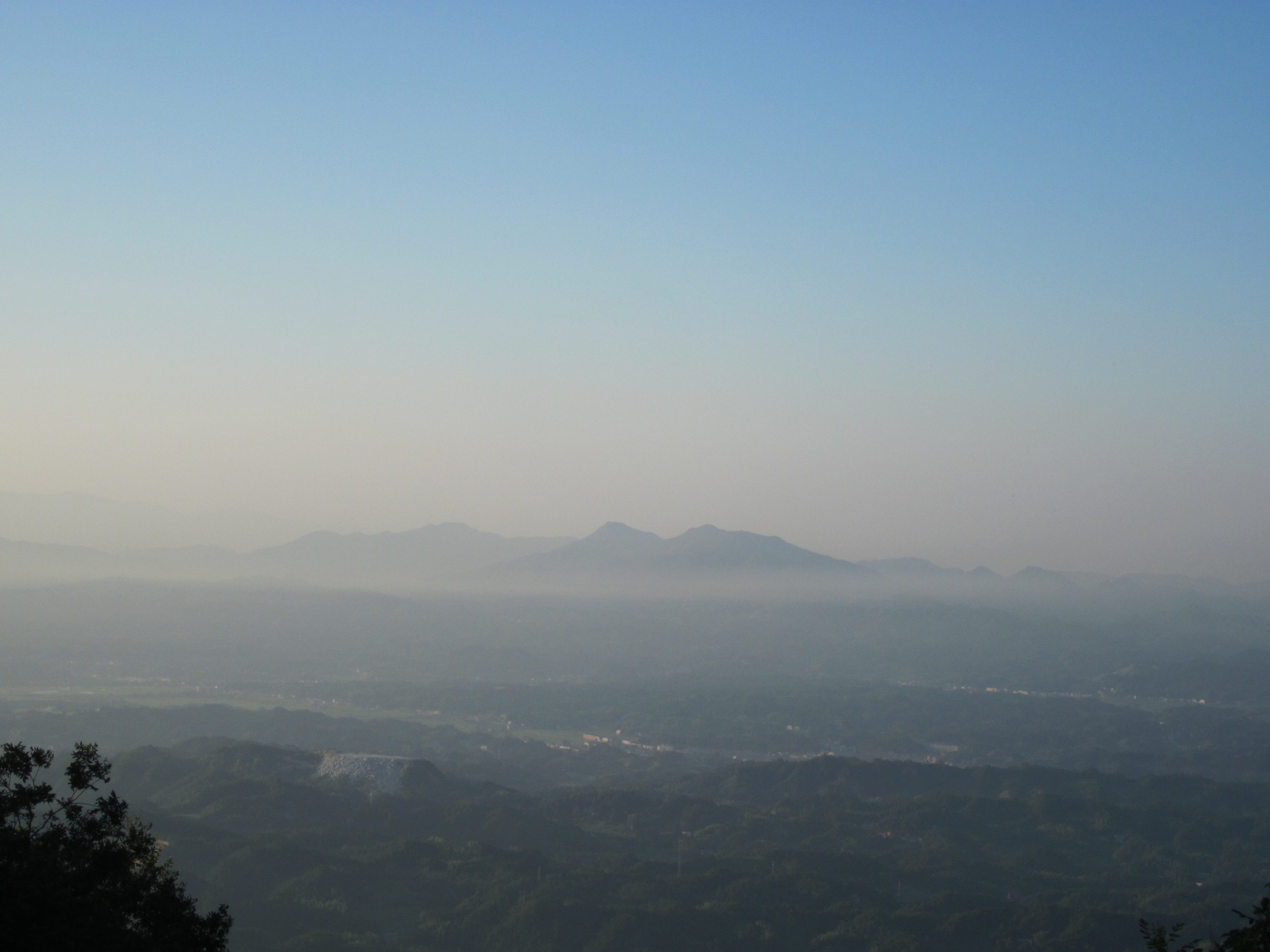 Overlooking the opposite mountains from Furong Mountain.中文（中国大陆）: 从芙蓉山远眺对面的群山。